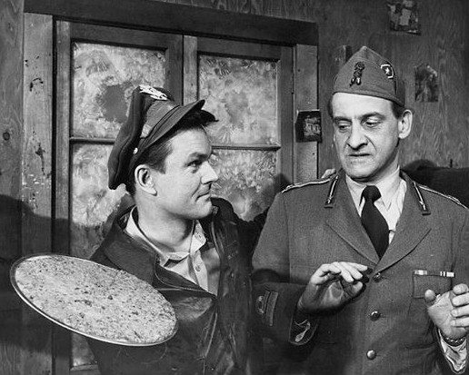 Publicity photo of Bob Crane as Col. Hogan with Hans Conried as a visiting Italian officer from the television show Hogan's Heroes.